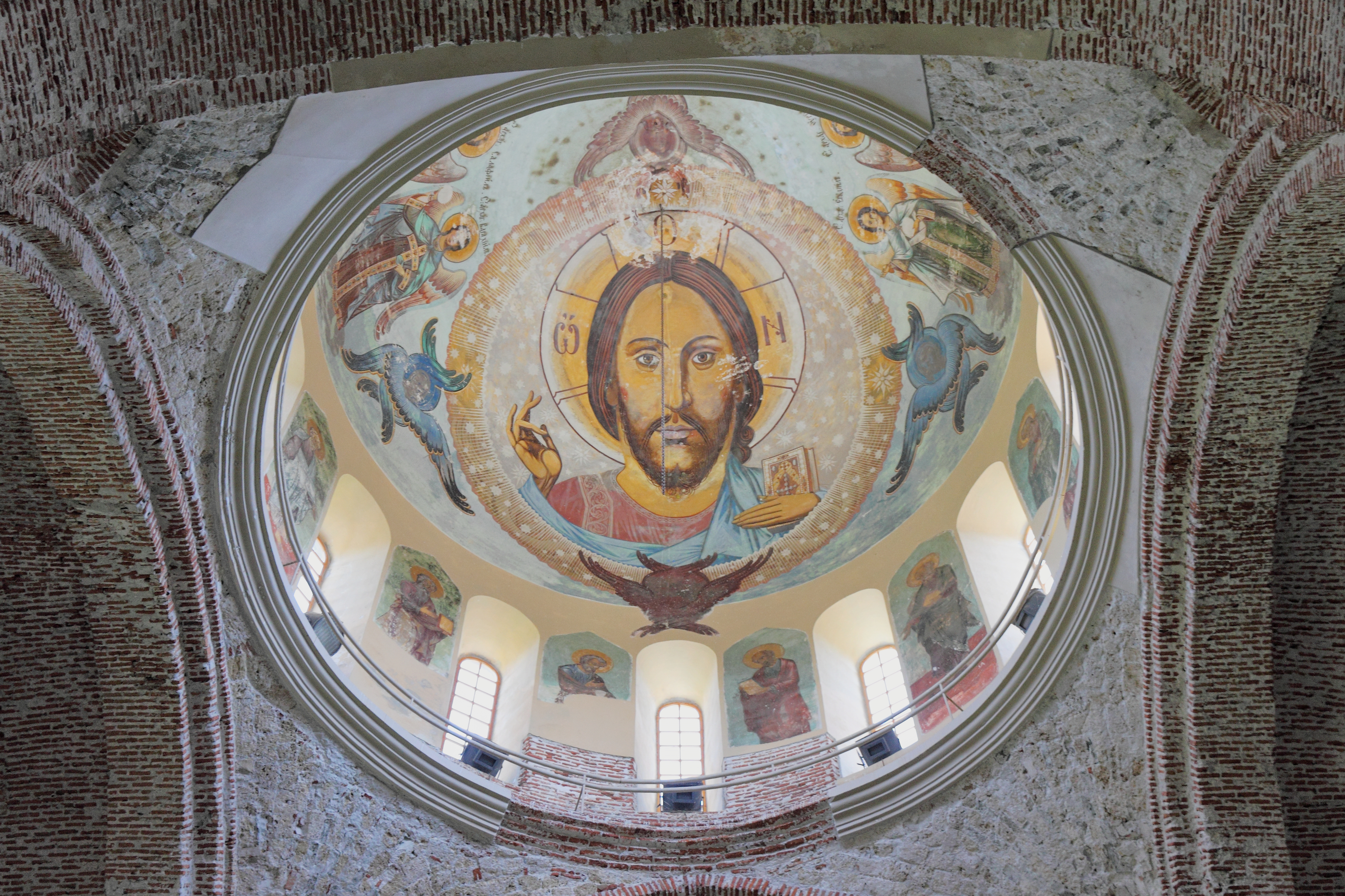 The fresco on the dome. St. Andrew the Apostle Cathedral. Pitsunda, Gagra District, Abkhazia.